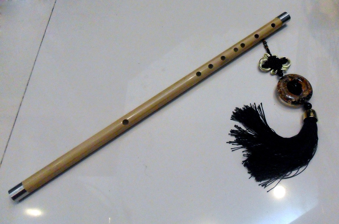 A six hole traditional Vietnamese flute